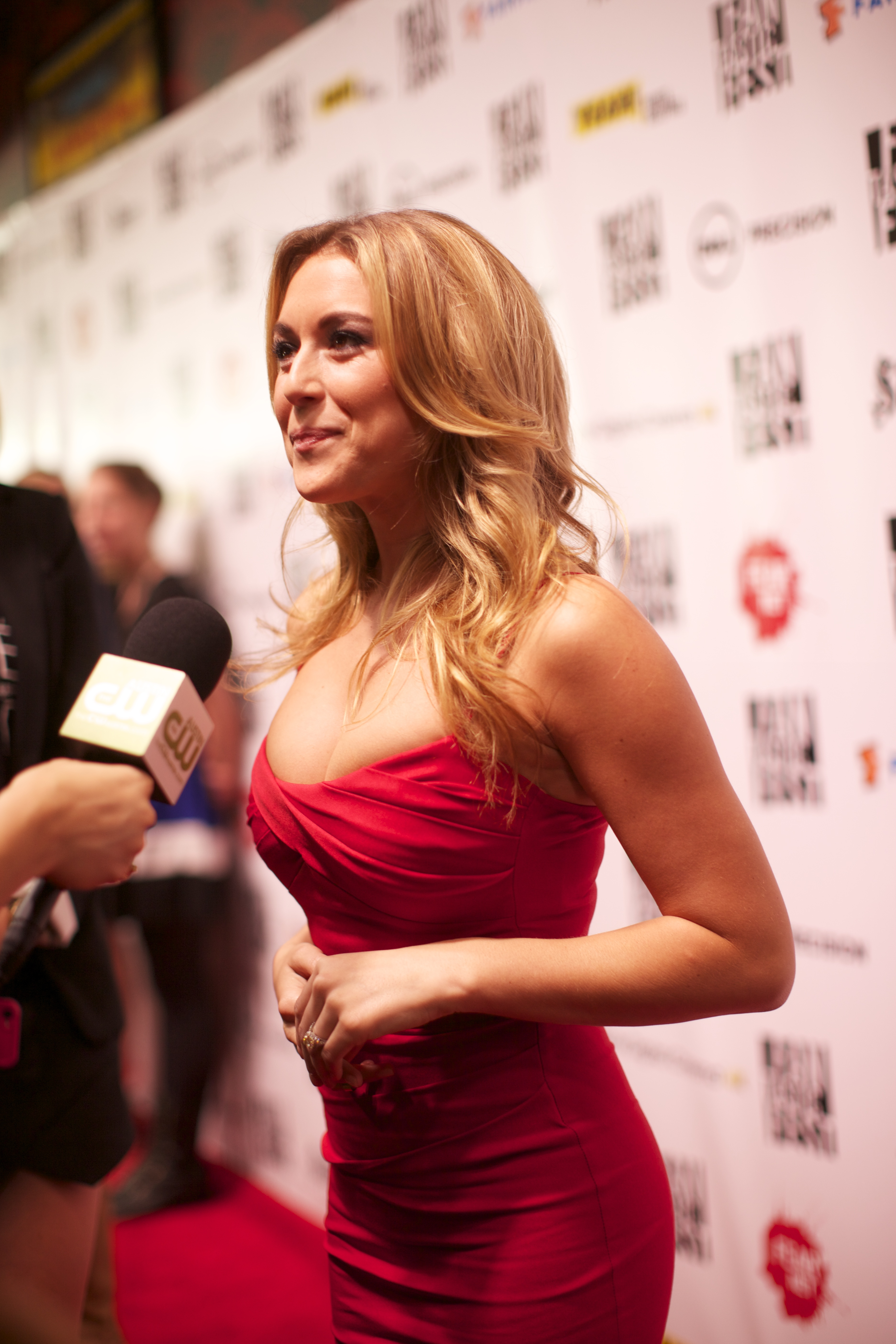 Vega at the premiere of "Machete Kills" at Fantastic Fest 2013